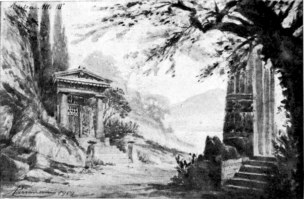 Luigi Cherubini - Medea - Milan 1909 - act 3